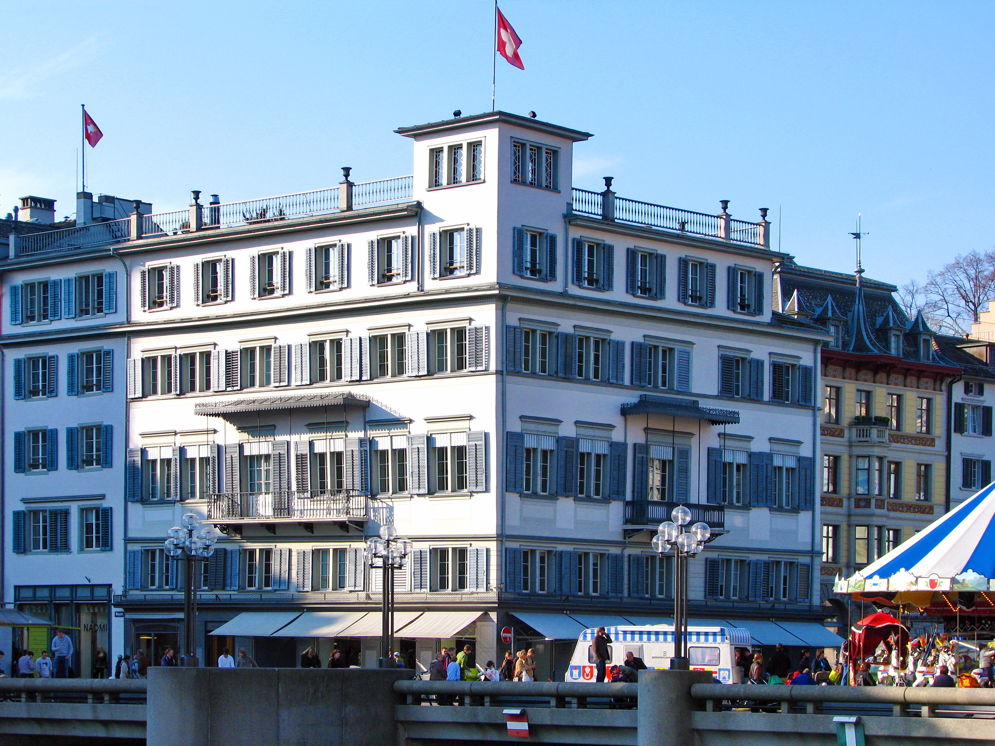 Zürich-Lindenhof quarter : Rathausbrücke («Gemüsebrücke») and Haus zum Schwert (former Mülner tower)) on the left side of the Limmat river, Lindenhof hill and Schipfe quarter in the background.